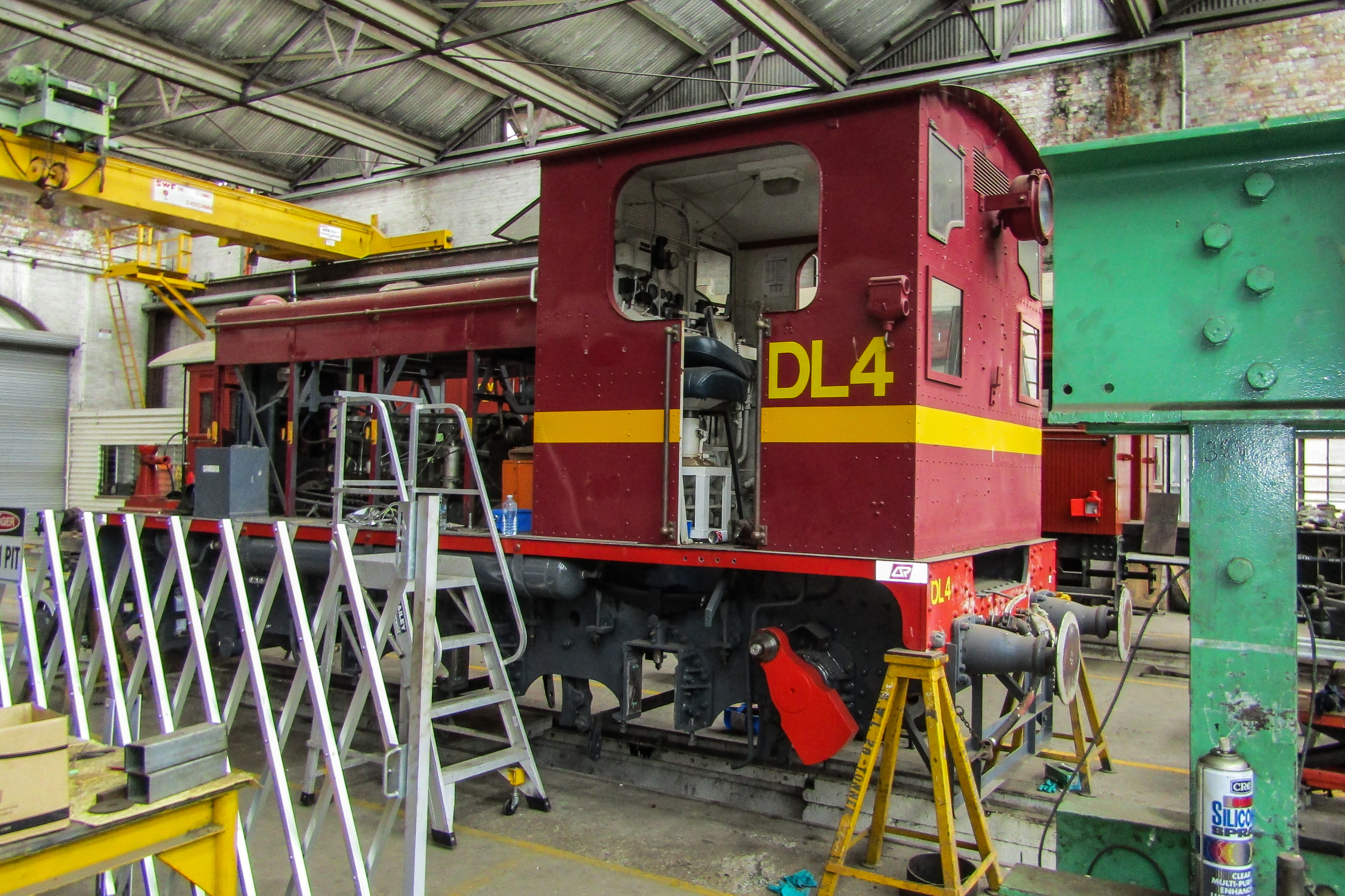 Gulflander locomotive DL4 under maintenence at Ipswich